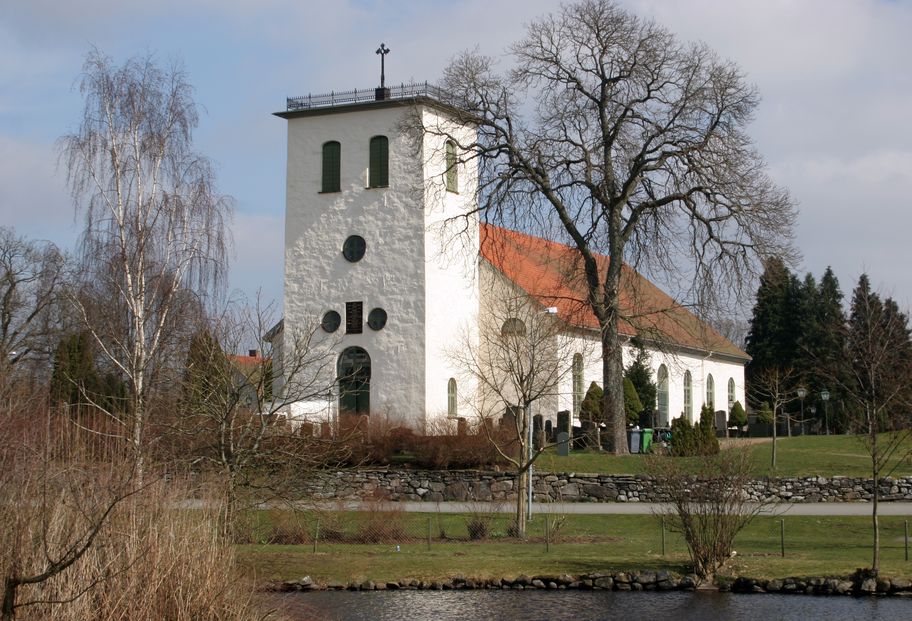 Glimåkra kyrka, parish church of Glimåkra in Scania, Sweden.